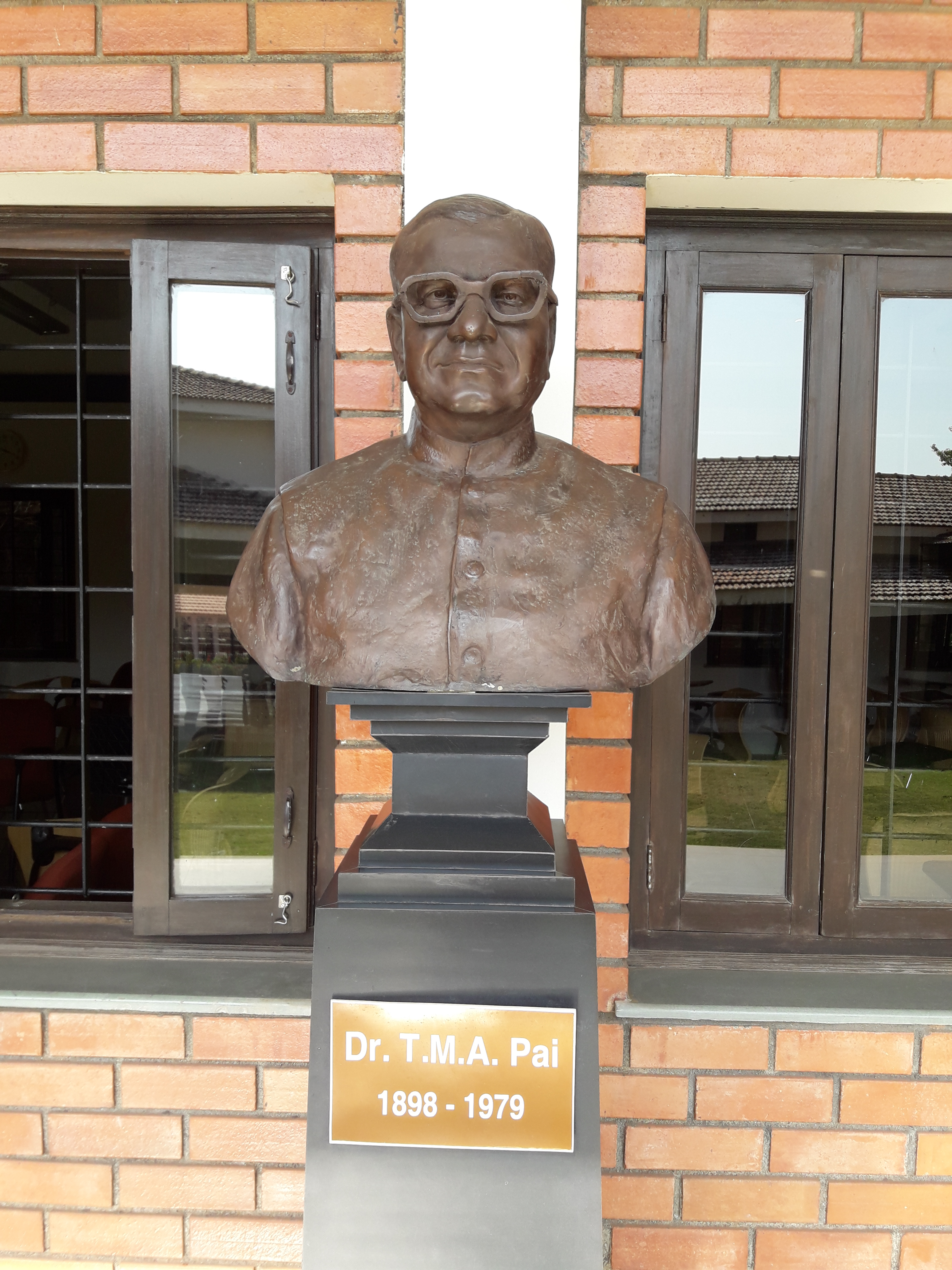 Bust of T. M. A. Pai at the campus of School of Life Science, Manipal